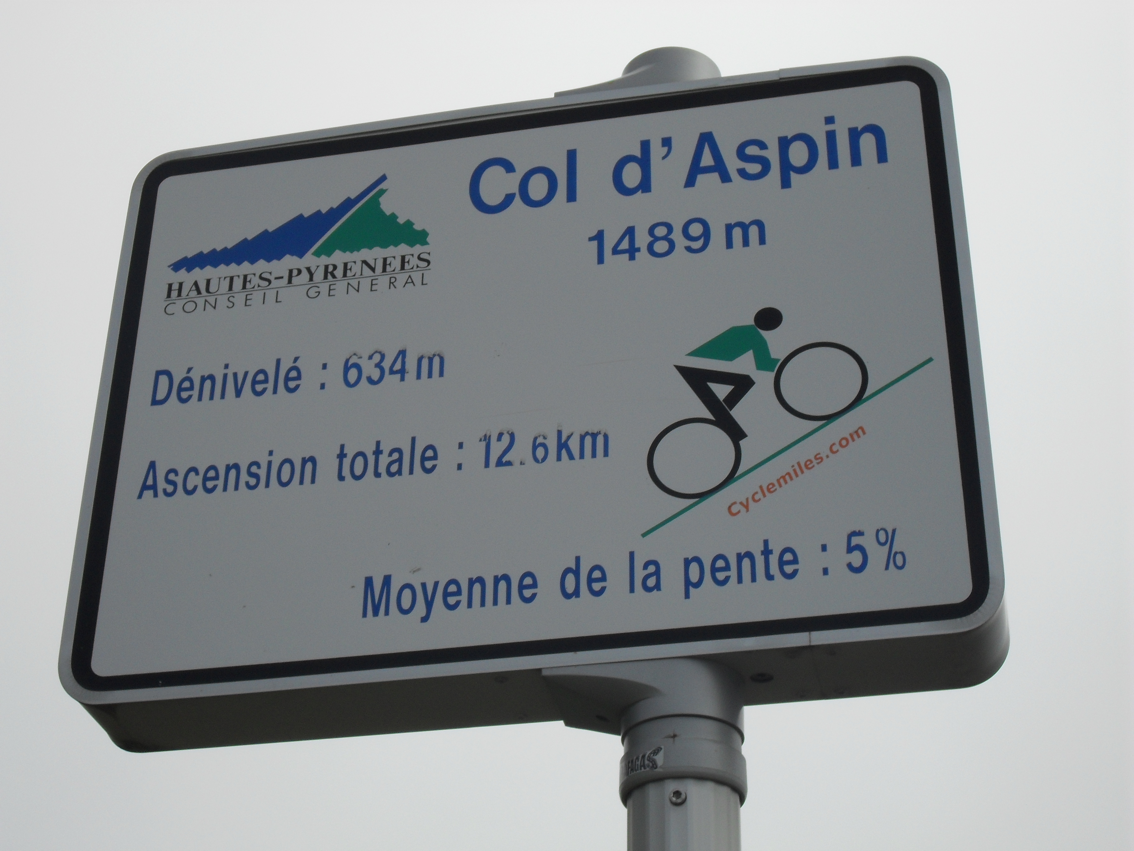 Mountain pass cycling milestone at the Col d'Aspin in France ascending from St Marie de Campan